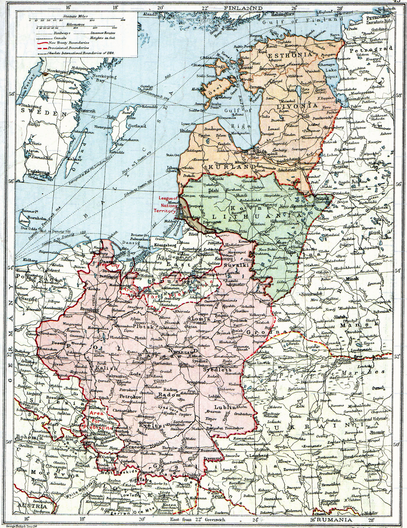 Map of Poland, Lithuania, Courland, Livonia and Esthonia published in the 1920 edition of The Peoples Atlas by London Geographical Institute. The map shows the situation after the treaties of Versailles and Brest-Litovsk and before the Peace of Riga and the organization and recognition of the nation-states of Estonia and Latvia. Note that most names featured on this map are pre-1914 Russian names put in English transcription, rather than local or English names as such.